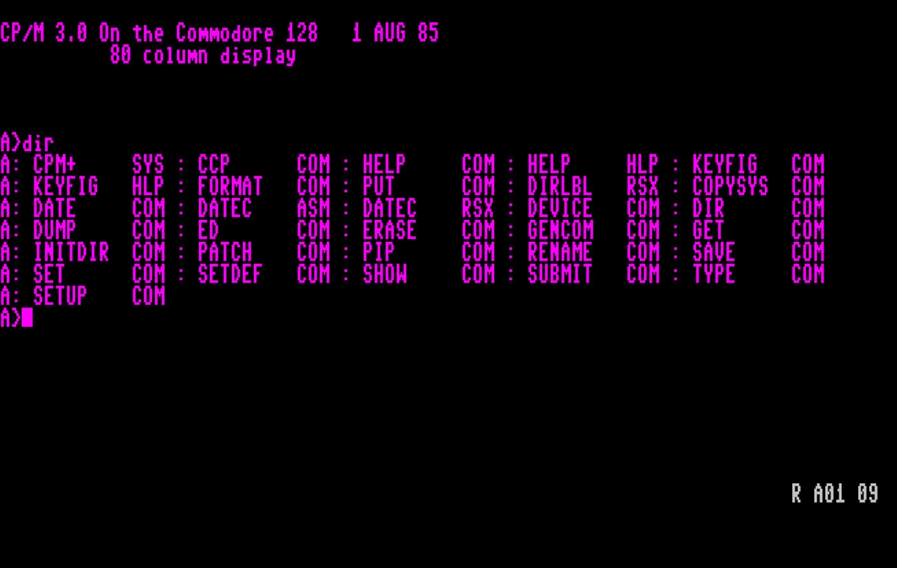 Screenshot of the start-up screen of a Commodore 128 home computer in CP/M mode (1985)